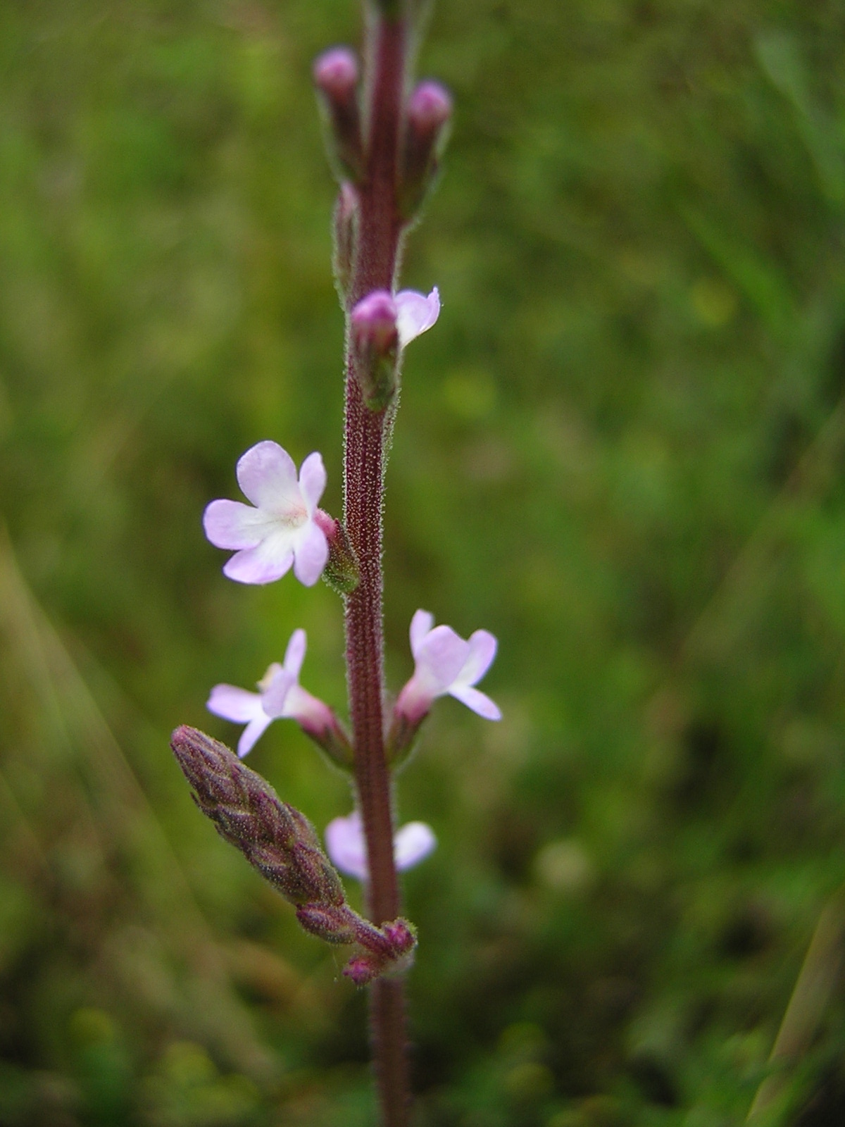 Verbena officinalis Author : Augustin Roche Source : [1]